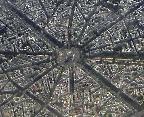 Place Charles de Gaulle in Paris (formerly: place de l’Étoile). The twelve avenues, clockwise from the north, are: Avenue Marceau Avenue d'Iéna Avenue Kléber Avenue Victor-Hugo Avenue Foch Avenue de la Grande-Armée Avenue Carnot Avenue Mac-Mahon Avenue de Wagram Avenue Hoche Avenue de Friedland Champs-Élysées